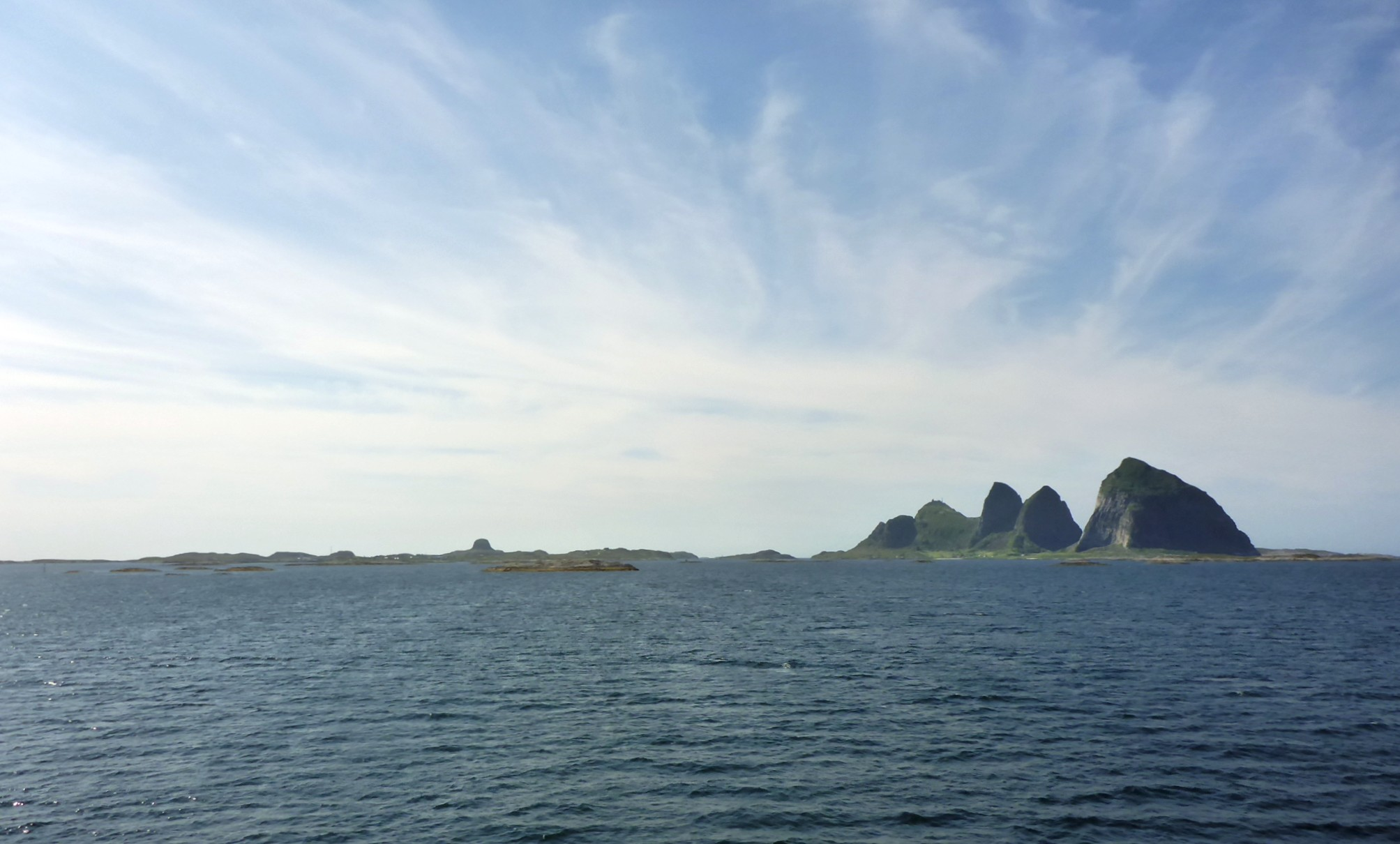 The Træna islands Husøya and Sanna from the island Selvær (NNE) in Nordland, Norway